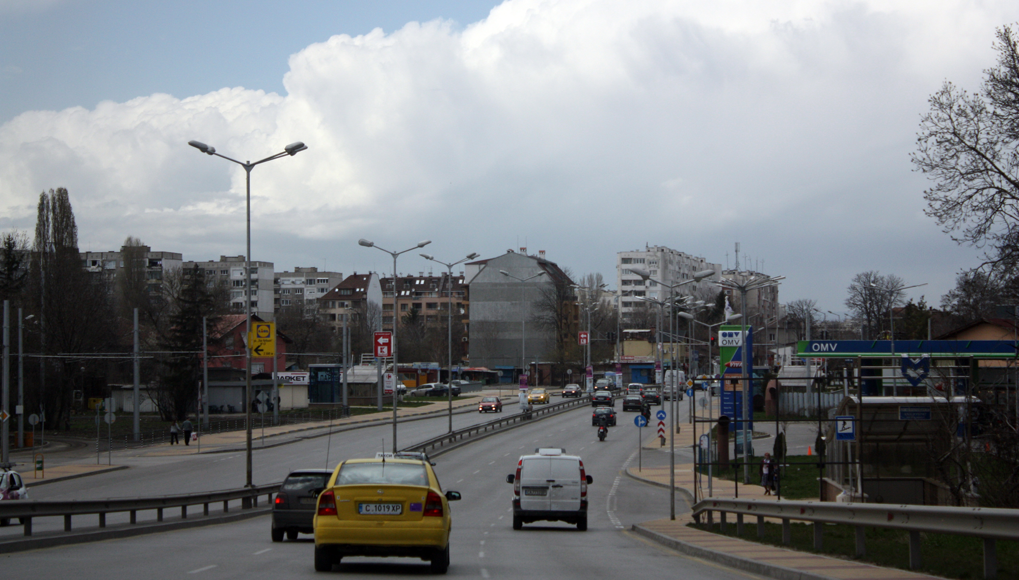 The beginning of Lomsko Shose boulevard Sofia, Bulgariain Sofia, Bulgaria